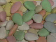 Dragées (confectionery).